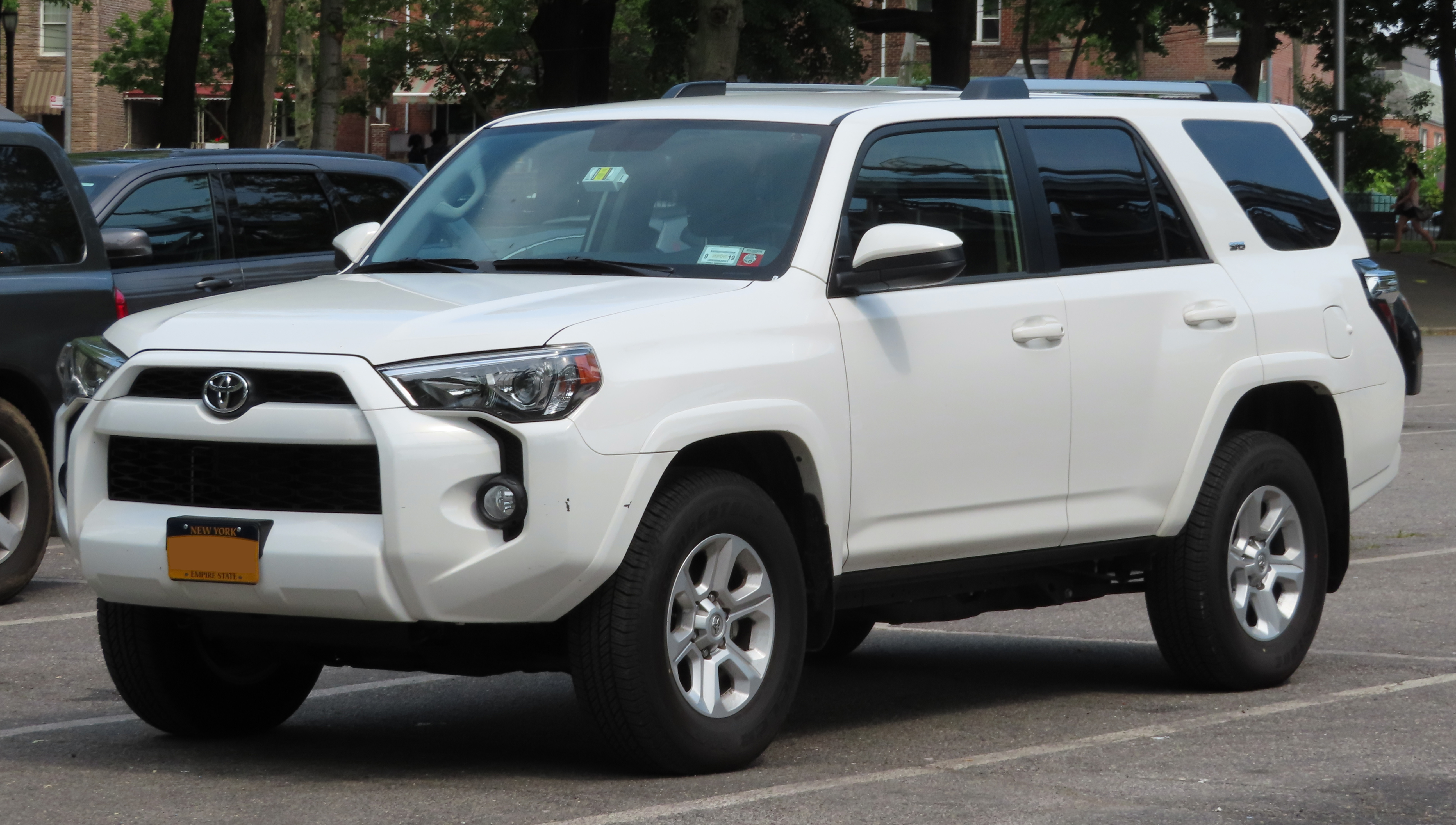 2019 Toyota 4Runner photographed at Astoria Park, in Astoria, Queens, New York, USA